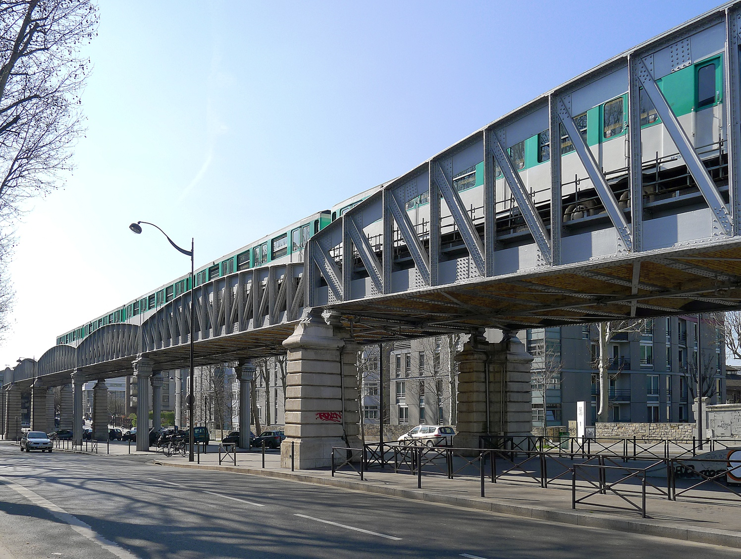 Vincent-Auriol boulevard - Paris